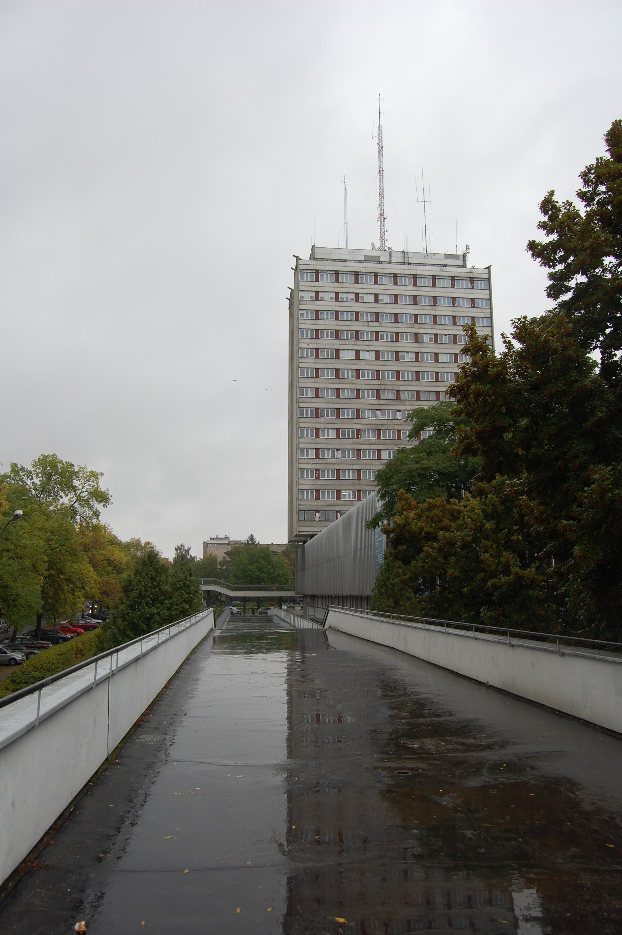 UMCS